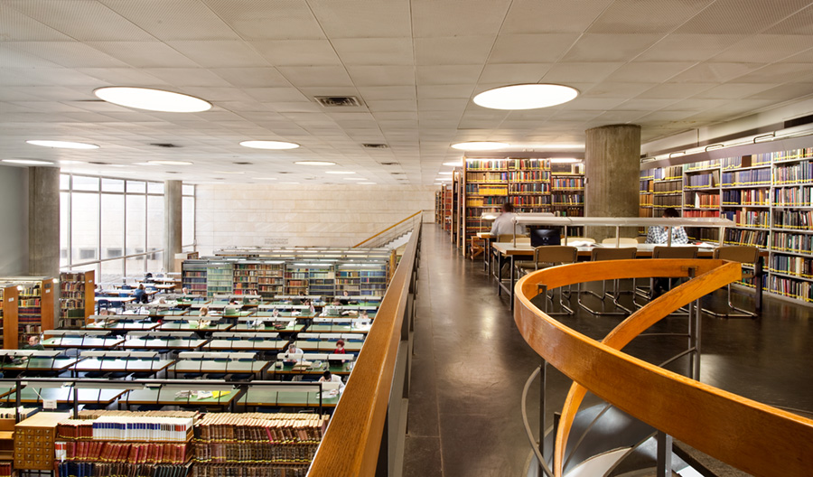 Judaica and Oriental reading room